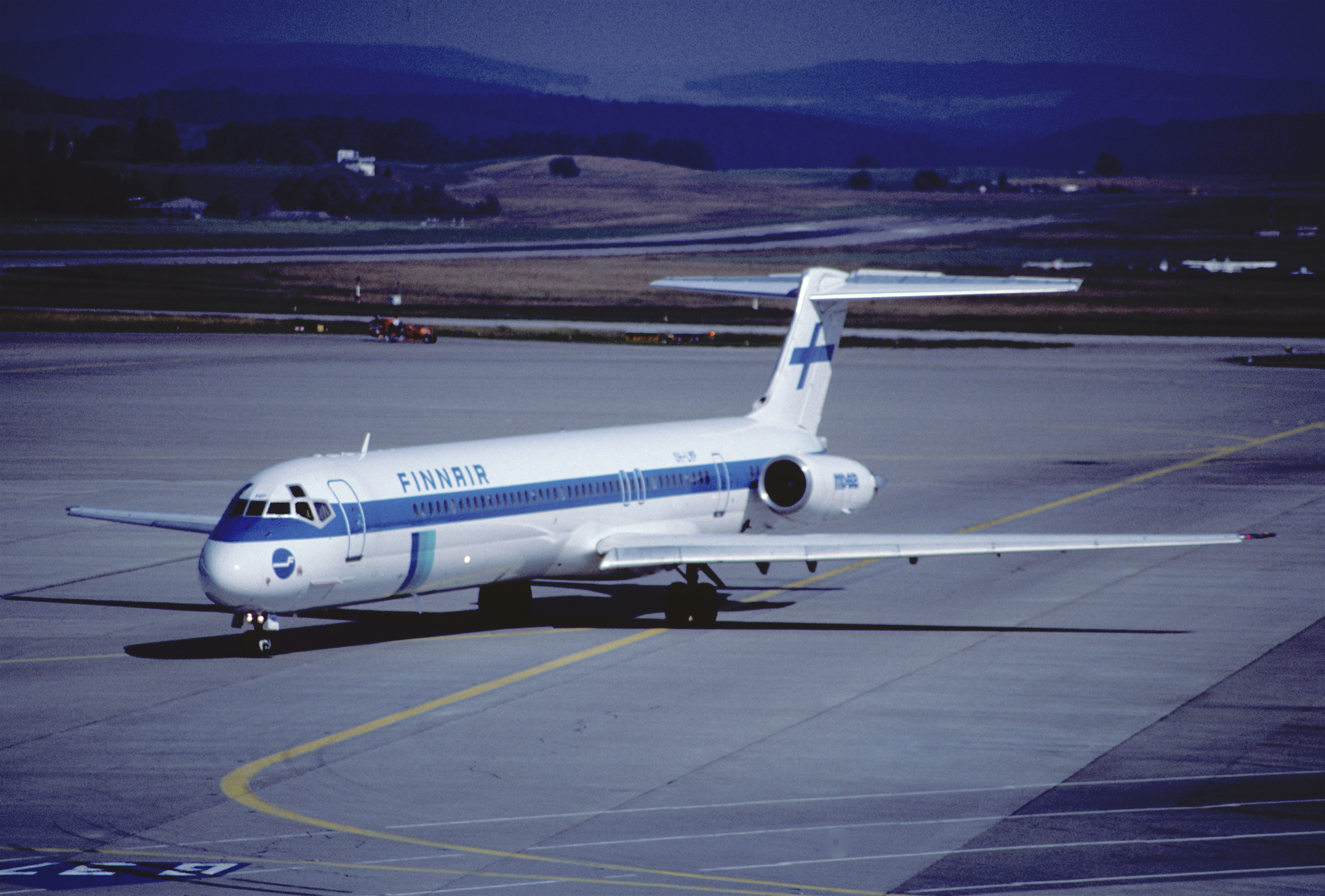 A Finnair McDonnell Douglas DC-9-82 (MD-82) aircraft (OH-LMP) at Zürich International Airport in June 1999.